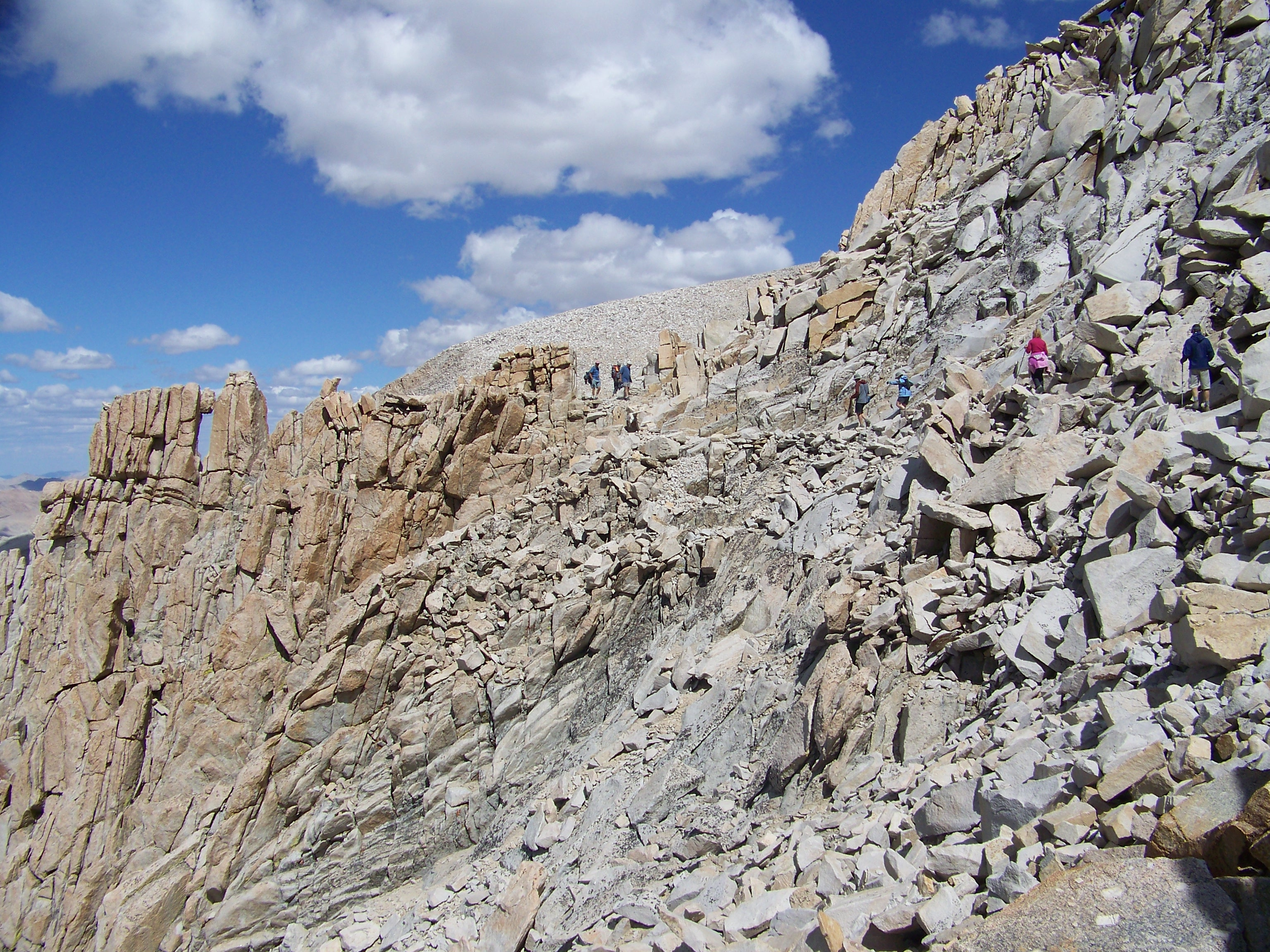 A view of the southern end of the John Muir Trail on the Sierra crest at approximately 14,000 feet. The summit plateau of Mount Whitney can be seen in the distance.